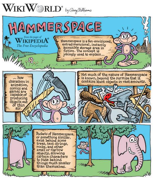 Hammerspace cartoon